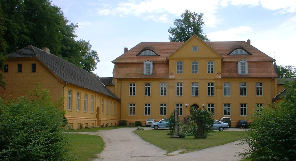 Lühburg manor in Mecklenburg-Western Pomerania, Germany